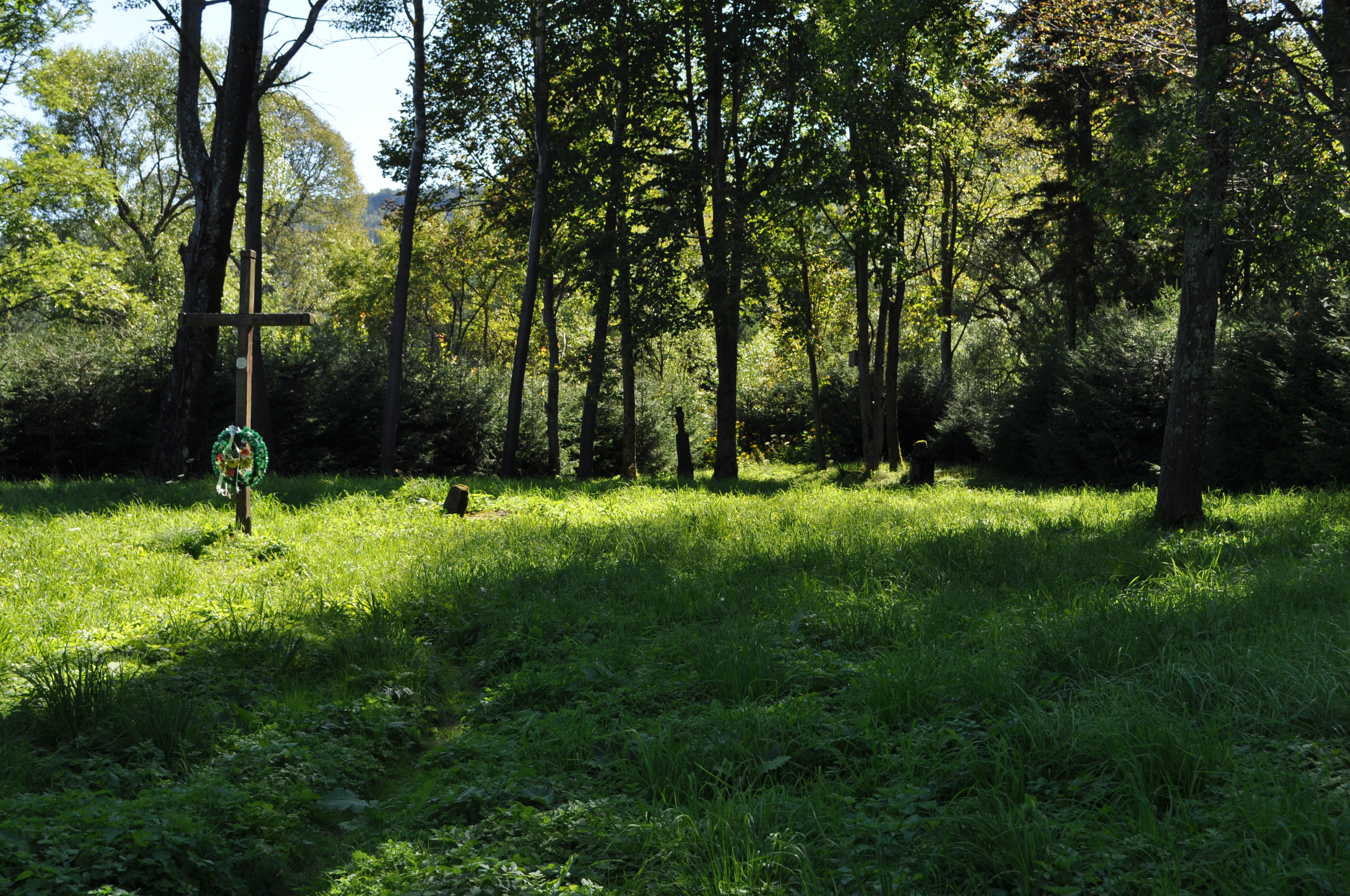 Cemetry in Stuposiany